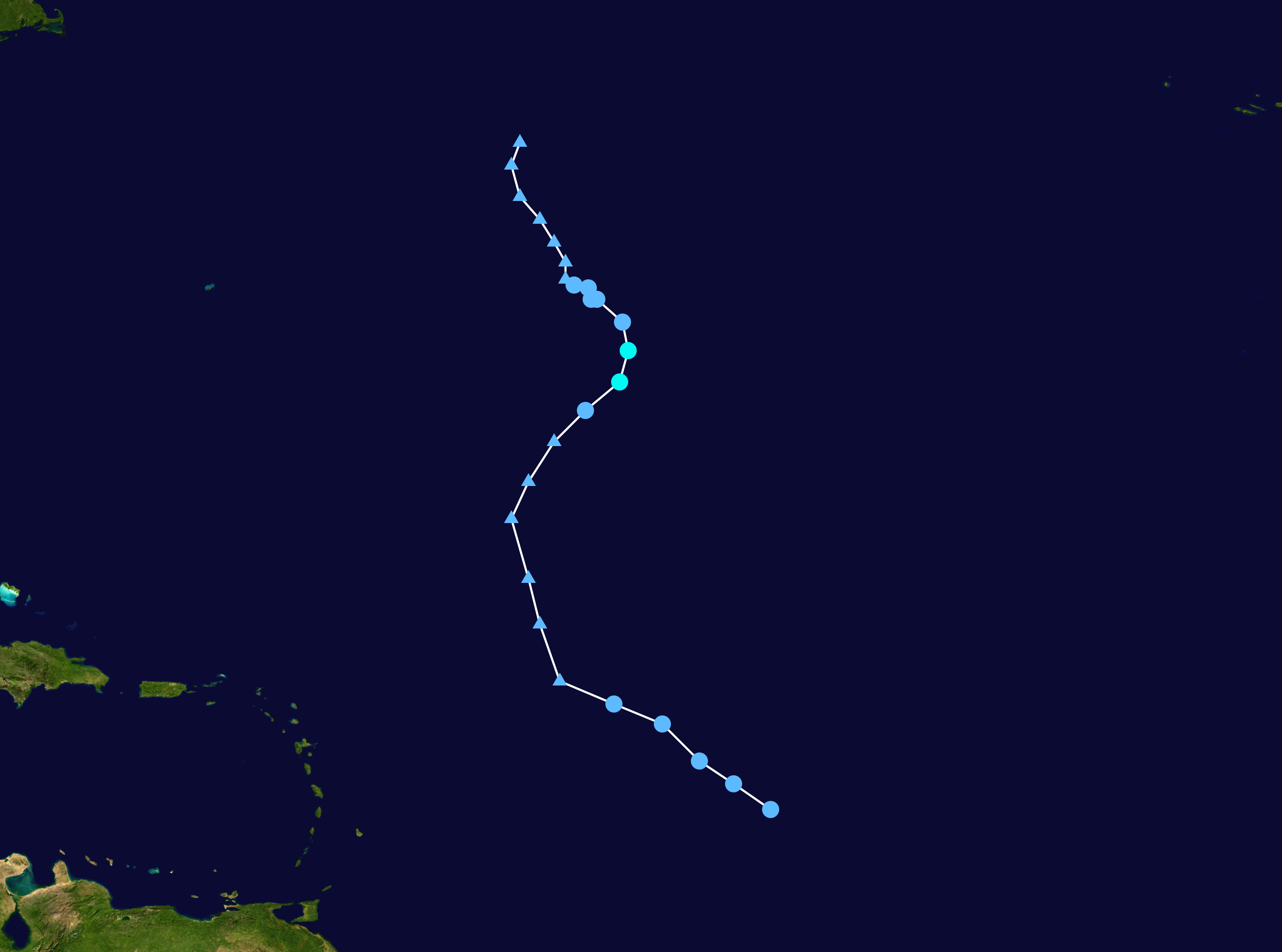 Track map of Tropical Storm Lee of the 2005 Atlantic hurricane season. The points show the location of the storm at 6-hour intervals. The colour represents the storm's maximum sustained wind speeds as classified in the Saffir–Simpson scale (see below), and the shape of the data points represent the nature of the storm, according to the legend below. Saffir–Simpson scale Tropical depression≤38 mph≤62 km/h Category 3111–129 mph178–208 km/h Tropical storm39–73 mph63–118 km/h Category 4130–156 mph209–251 km/h Category 174–95 mph119–153 km/h Category 5≥157 mph≥252 km/h Category 296–110 mph154–177 km/h Unknown Storm type Tropical cyclone Subtropical cyclone Extratropical cyclone / Remnant low / Tropical disturbance / Monsoon depression